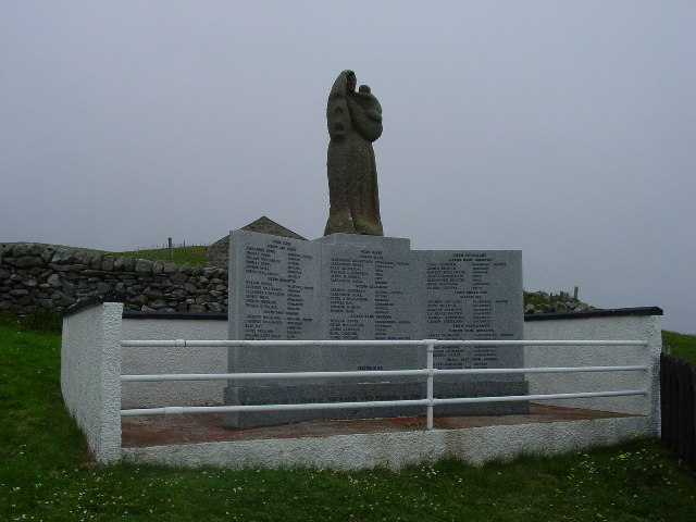 Fishermen's Memorial, Gloup, Isle of Yell, Shetland This memorial, erected in 1981 recalls the fishing disaster which occurred near here on July 21st 1881. Fifty eight fishermen lost their lives, many local, when they were caught in a sudden storm.